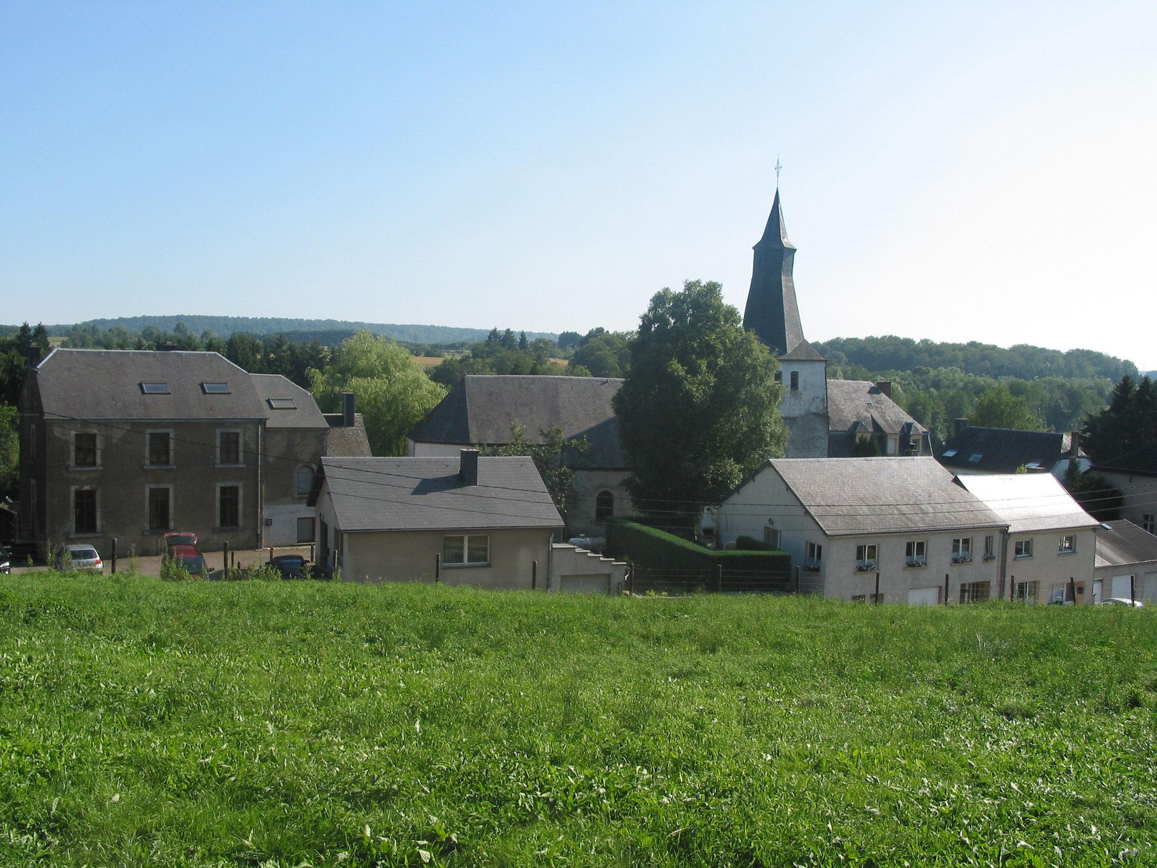 Attert (Belgium), the neigbourhood of the old St. Etienne church (Tower of the XVIth century).